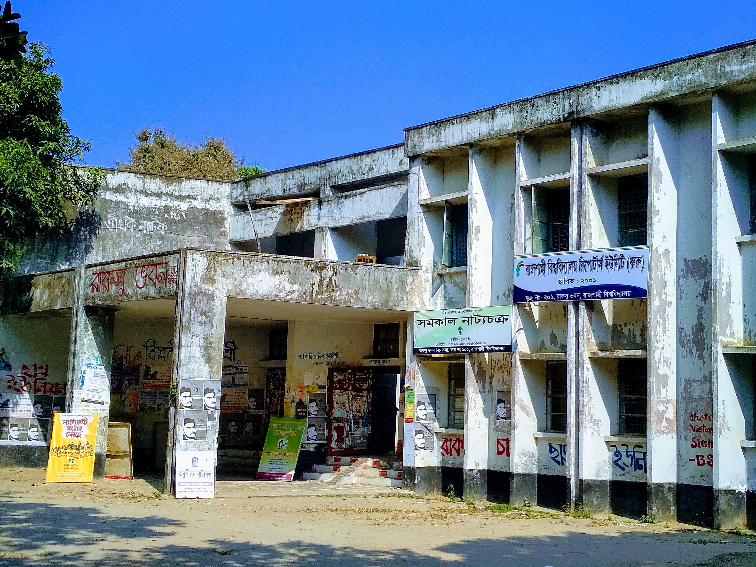 Rajshahi University Central Students' Union Bhaban